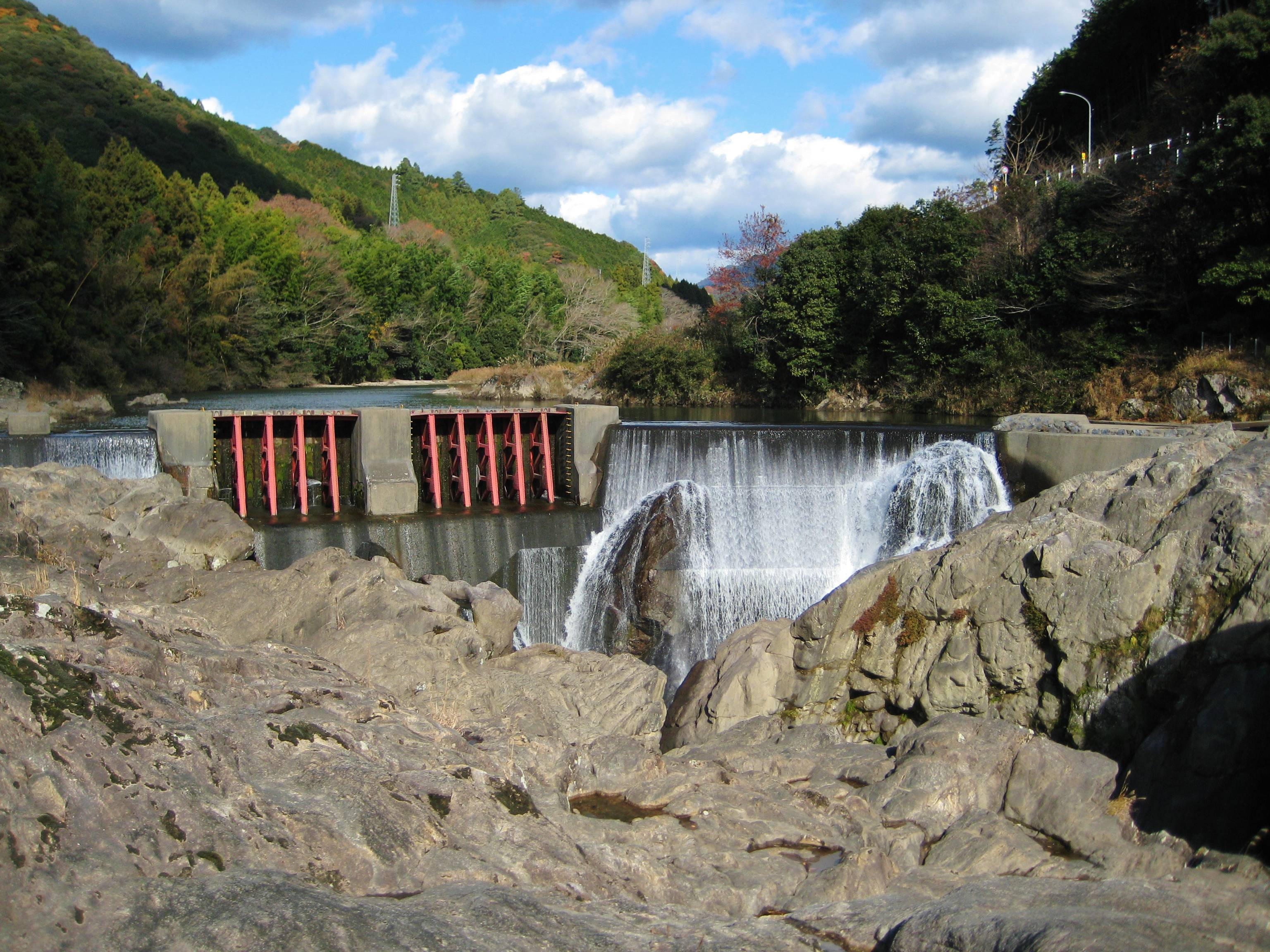 Nagashino Weir.